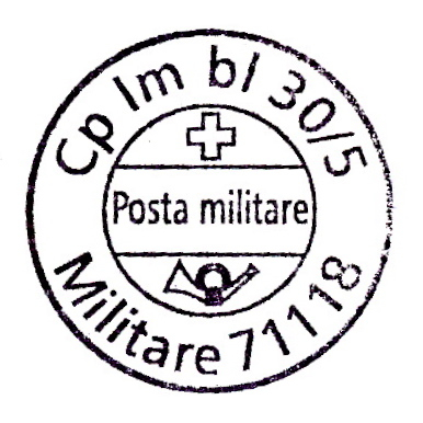 Swiss military mail postmark.